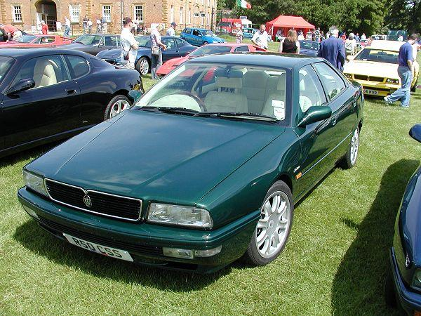 Maserati Quattroporte (IV) Photographed at an auto show near Liverpool, England.